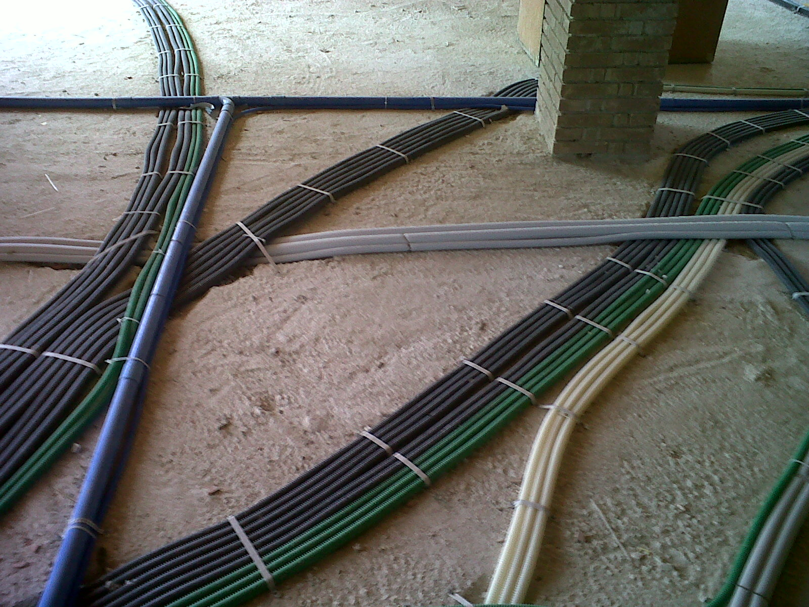 Electrical wiring